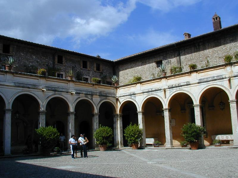 Tivoli, Villa d'Este courtyard